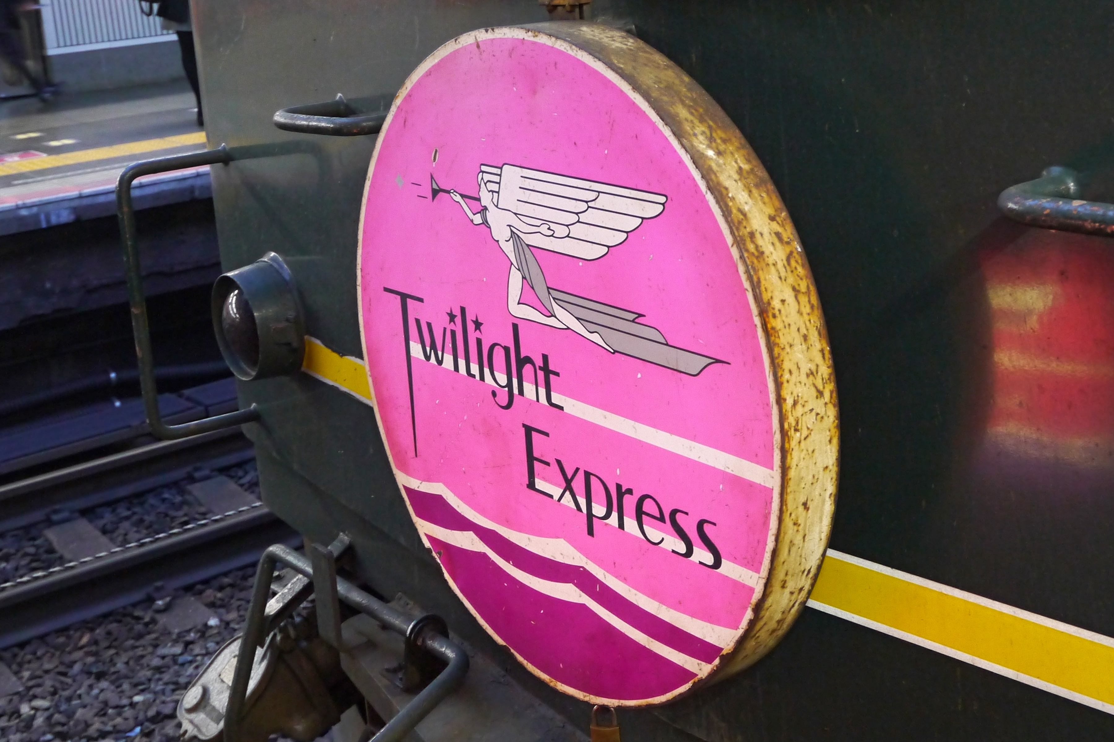 The train headboard on a Twilight Express service at Osaka Station in Japan